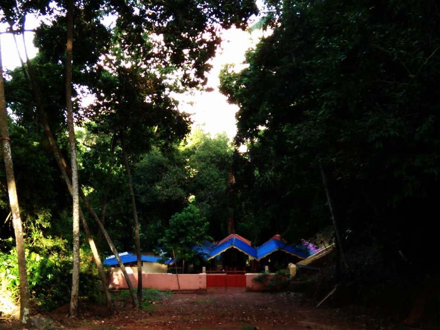 This is a small temple called kavu - surrounded by a mini forest Just beside india's largest IT park - Technopark -Trivandrum . Its a symbol of how technology and nature can coexist .